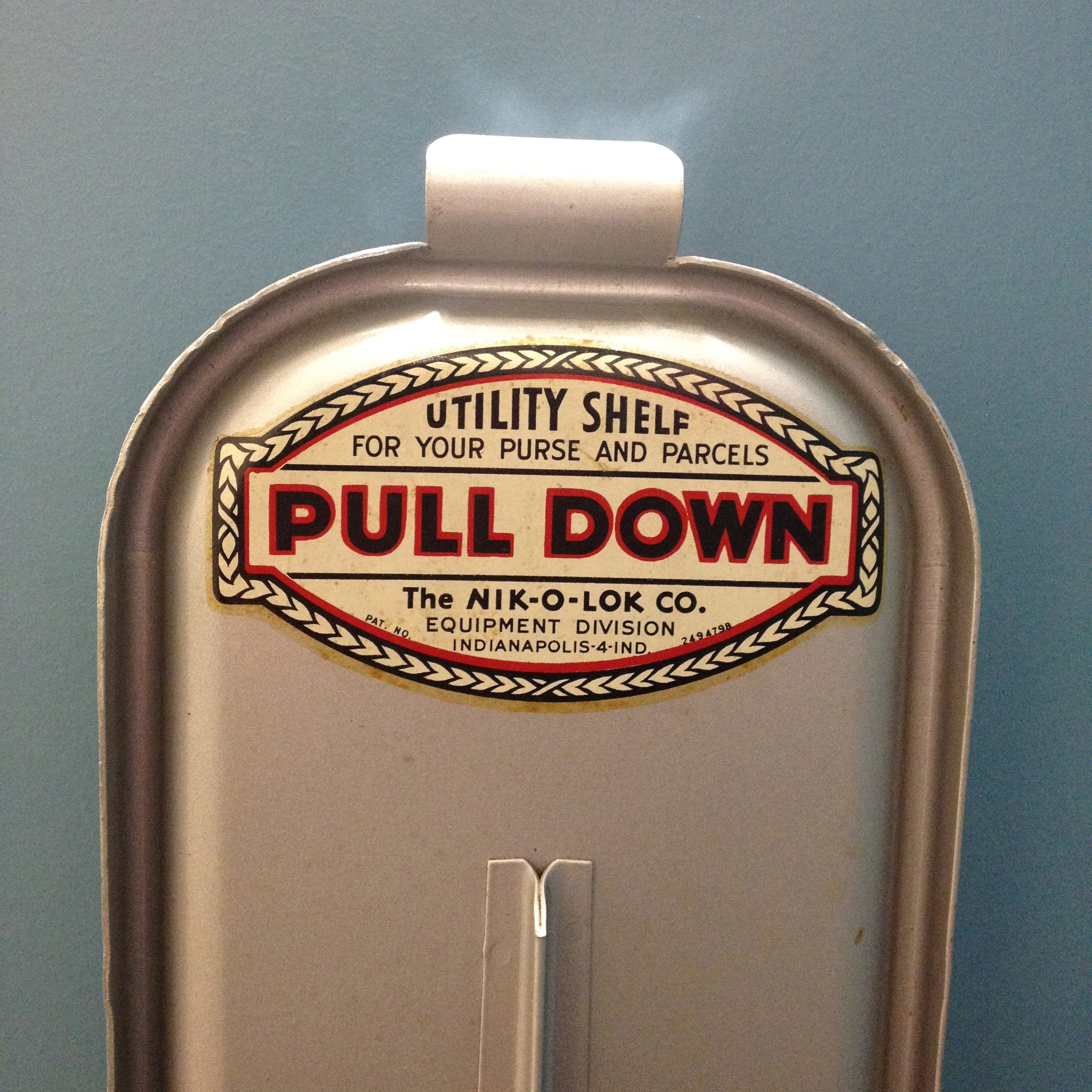 Old-fashioned label on a pull-down "utility shelf" in a bathroom, from the Nik-O-Lok Co.